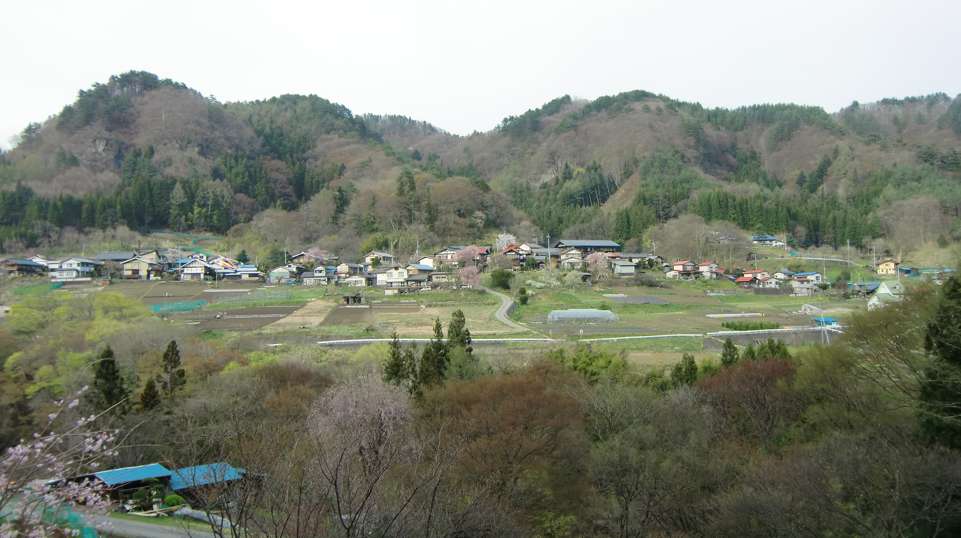 Akaiwa settlement in Nakanojo-town(old Kuni-vill), Gunma-pref, JAPAN. This settlement registered as a Important Preservation Districts for Groups of Historic Buildings in Japan. This picture was taken from Route 292.